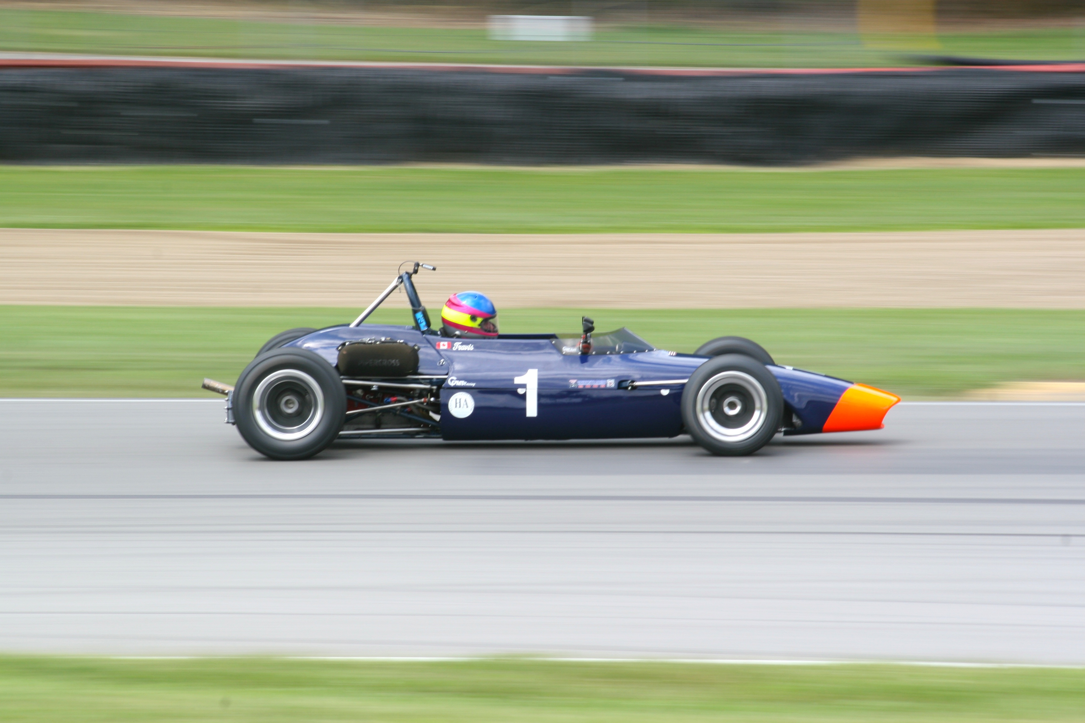 1 - 1970 Chevron B17B (F/B) (1600cc) Driven by Travis Engen